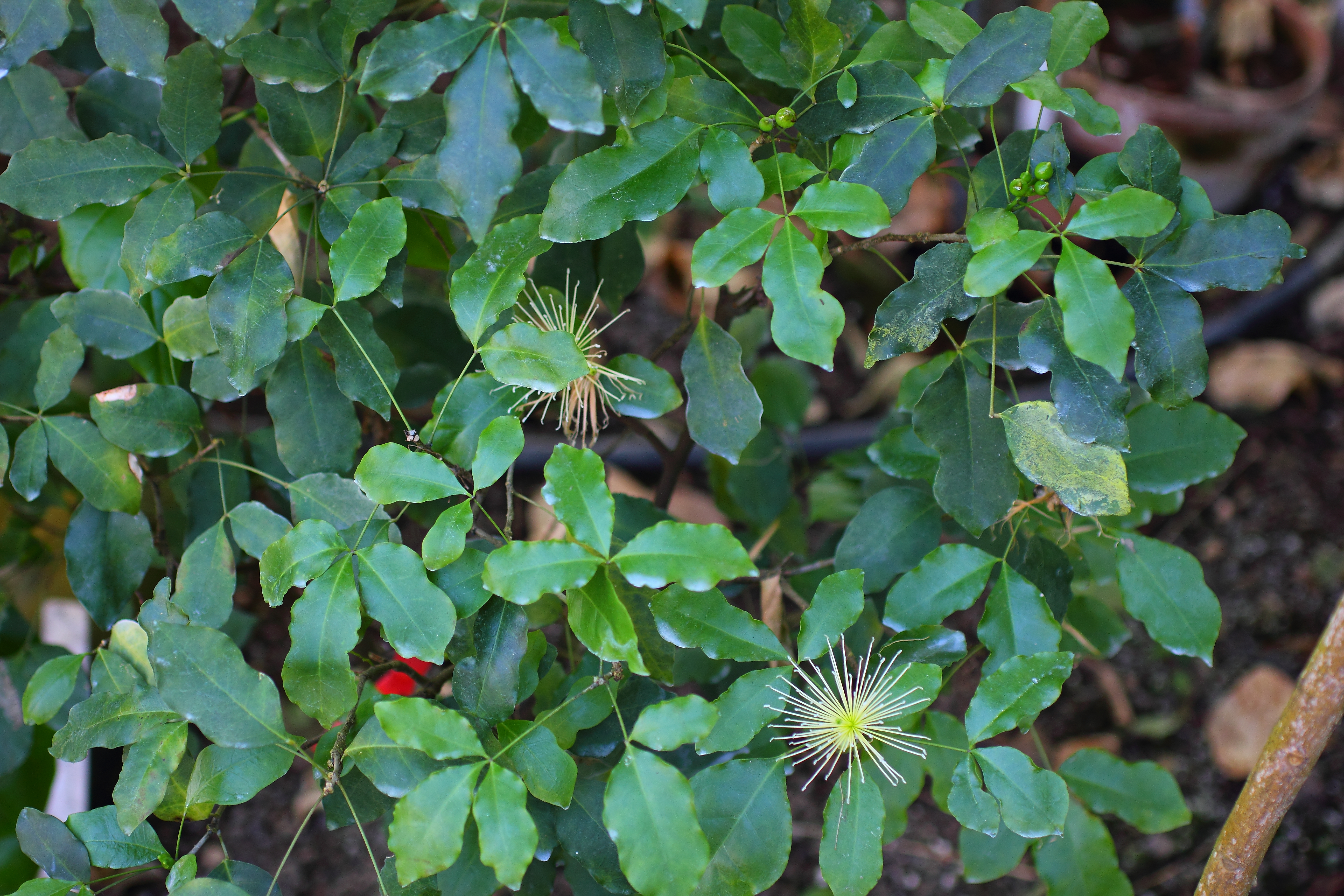 Thilachium panduriforme (Syn.: Thilachium africanum) in the botanical garden of Graz